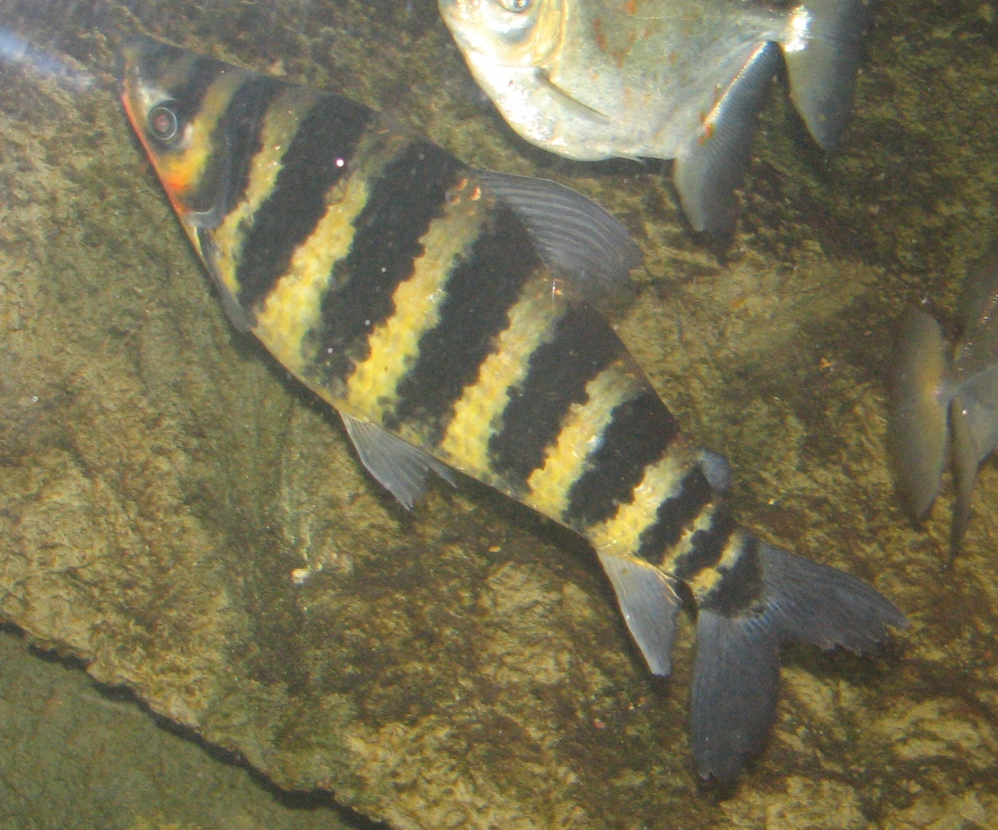 Leporinus fasciatus - Banded Lepornus at Louisville Zoo